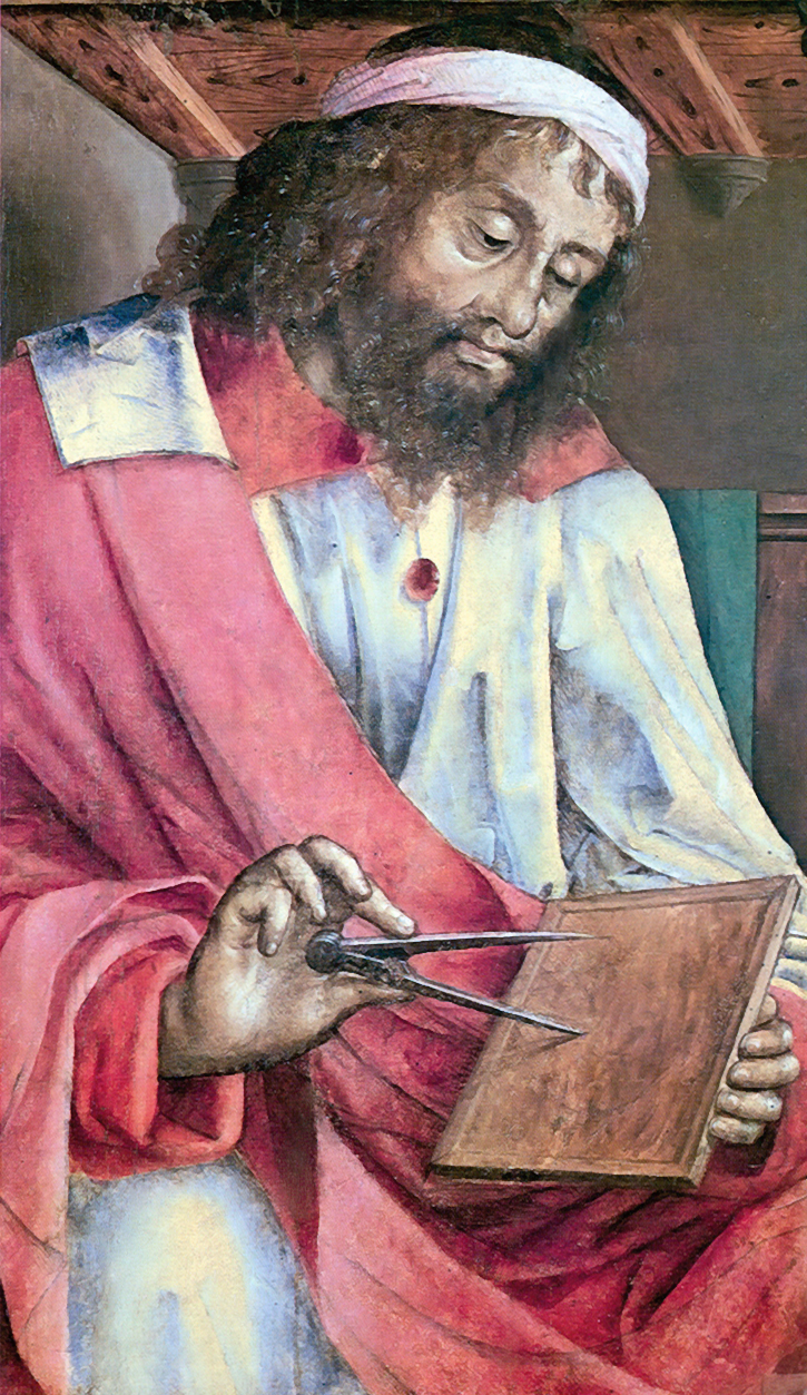 "Euclid of Megara" (lat: Evklidi Megaren), Panel from the Series 'Famous Men', Justus of Ghent, about 1474, Panel, 102 x 80 cm, Urbino, Galleria Nazionale delle Marche. This picture is meant to represent the famous mathematician Euclid of Alexandria, who was, in medieval times, wrongly identified with Euclid of Megara, the disciple of Socrates.